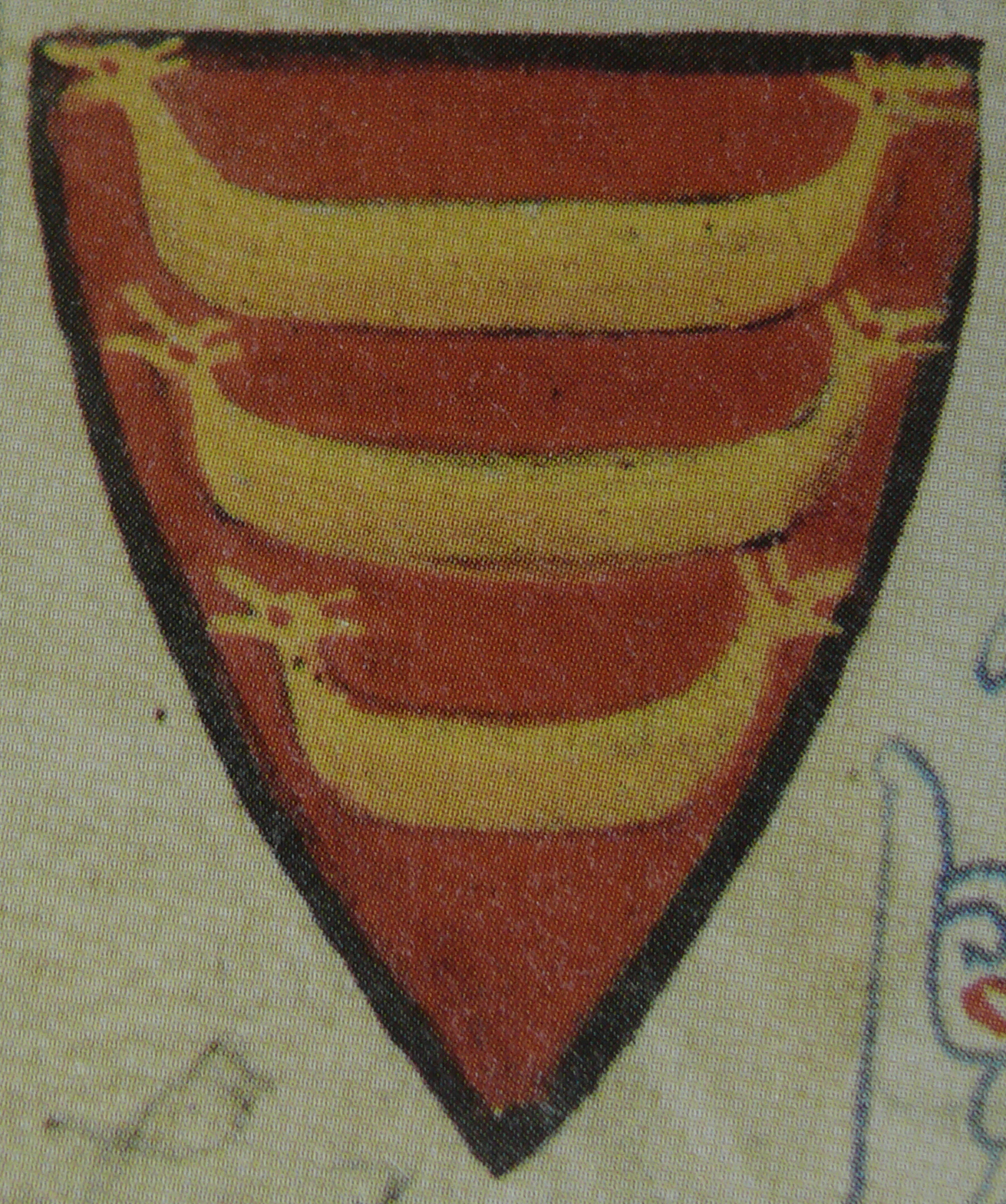 An excerpt from folio 216v of Cambridge Corpus Christi College Parker Library MS 16 II (Chronica Majora) depicting the coat of arms of Hákon Hákonarson, King of Norway (died 1263).